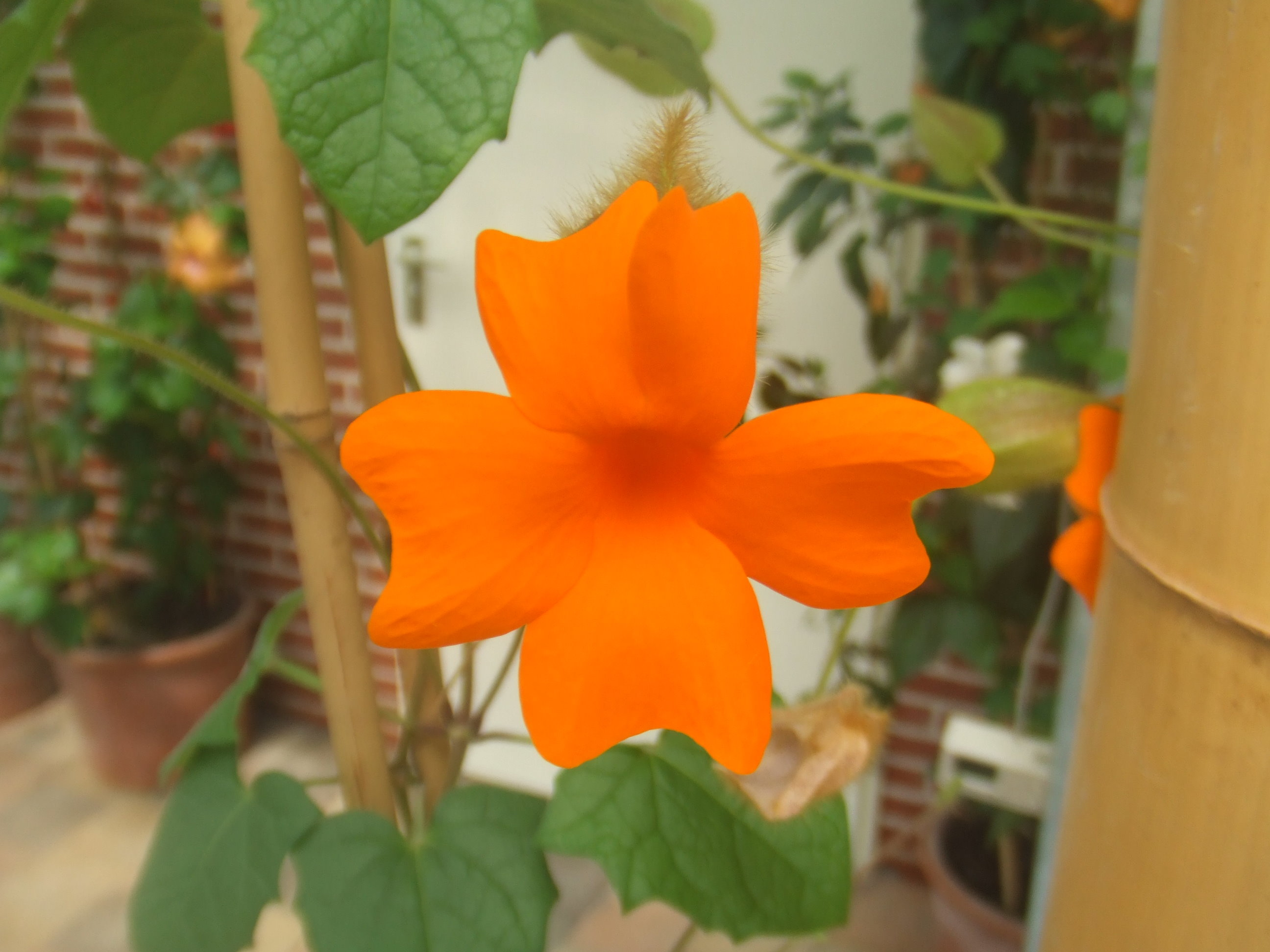 Thunbergia gregorii, picture taken at Passiflorahoeve in Harskamp, The Netherlands